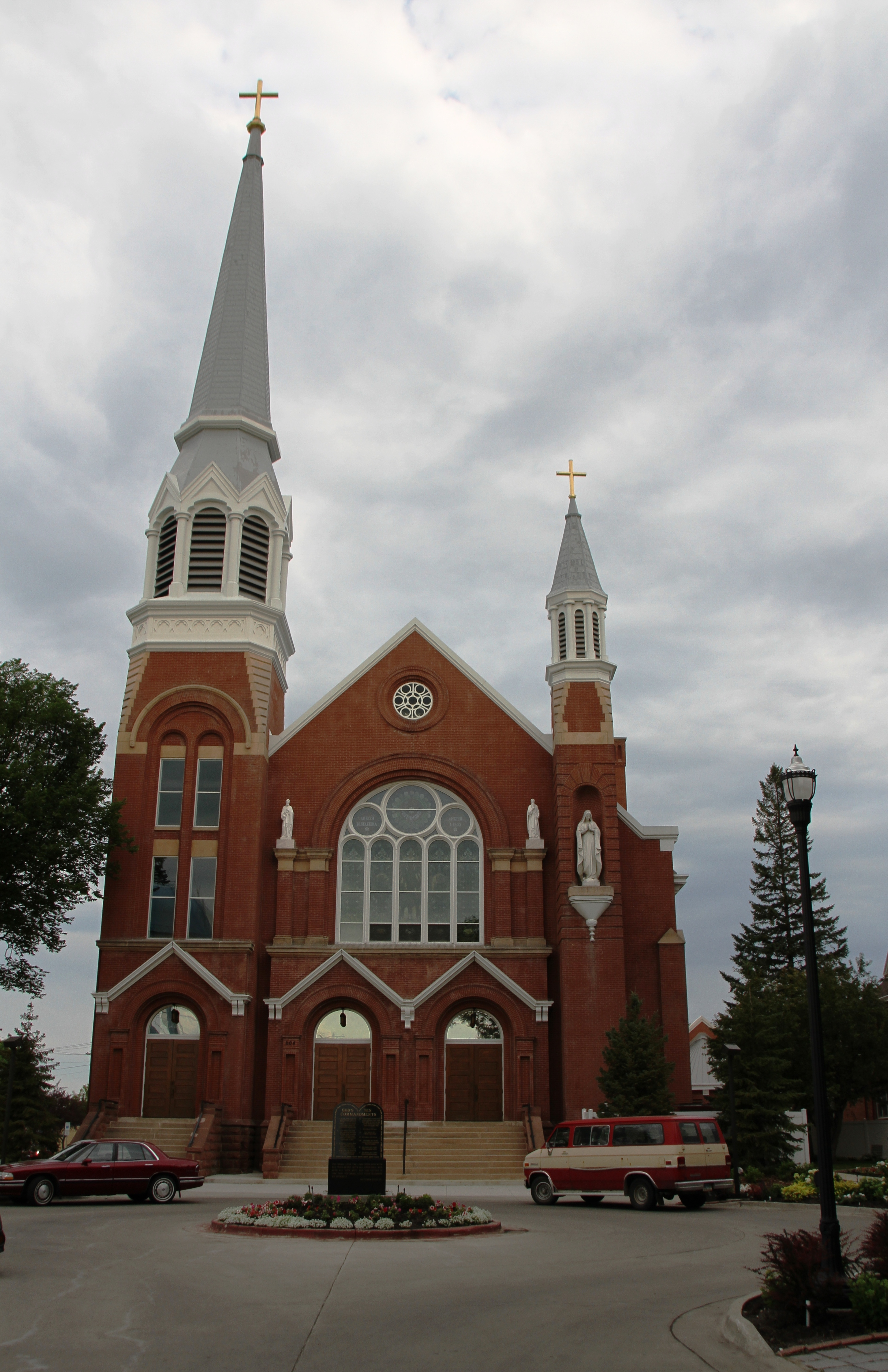 Images from central Fargo, North Dakota.